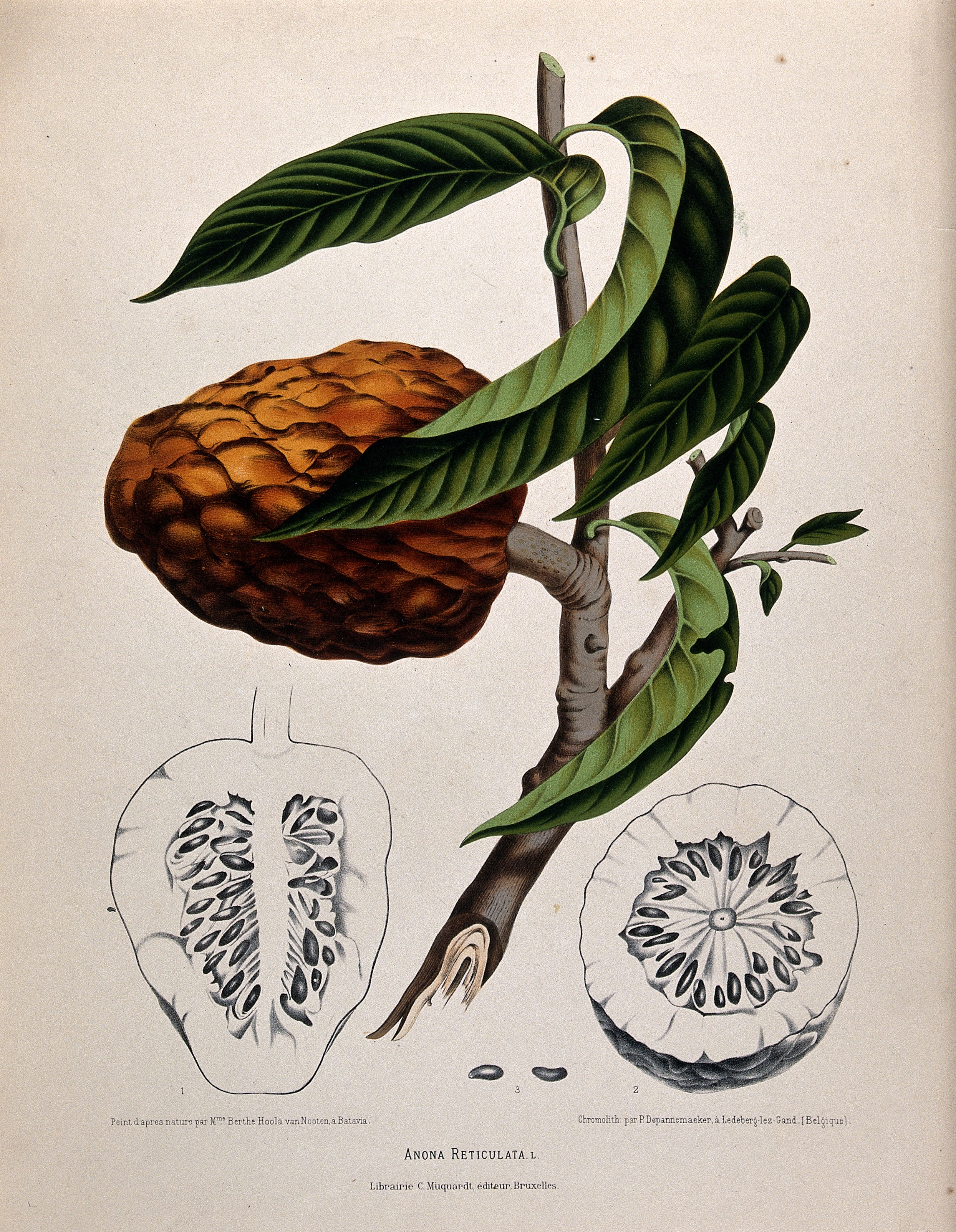 Custard apple or Bullock's heart (Annona reticulata L.): fruiting branch with sections of fruit and seeds. Chromolithograph by P. Depannemaeker, c. 1885, after B. Hoola van Nooten. Iconographic Collections Keywords: Berthe van Nooten Hoola; tropical plants; Annonaceae; botany - java (indonesia); chromolithographs; Pierre Joseph Depannemaeker; tropical fruit; island flora; plants, edible - java (indones; scientific illustrations